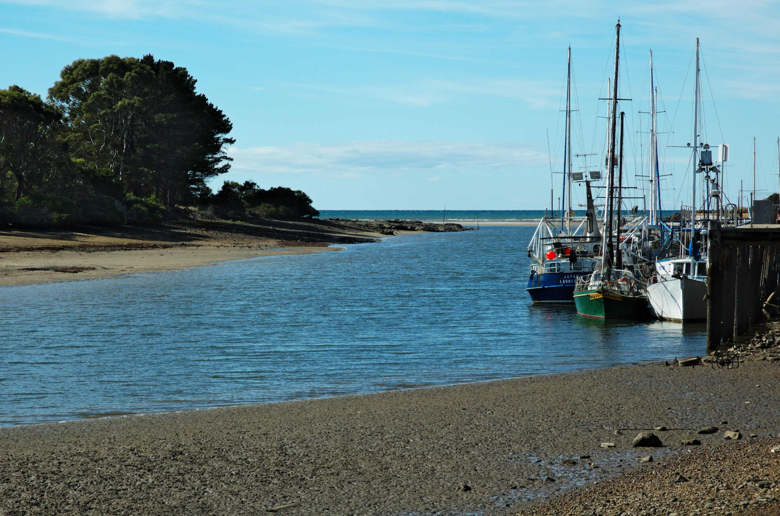 Wharf on the Inglis River estuary, looking towards its mouth at Wynyard, Tasmania.